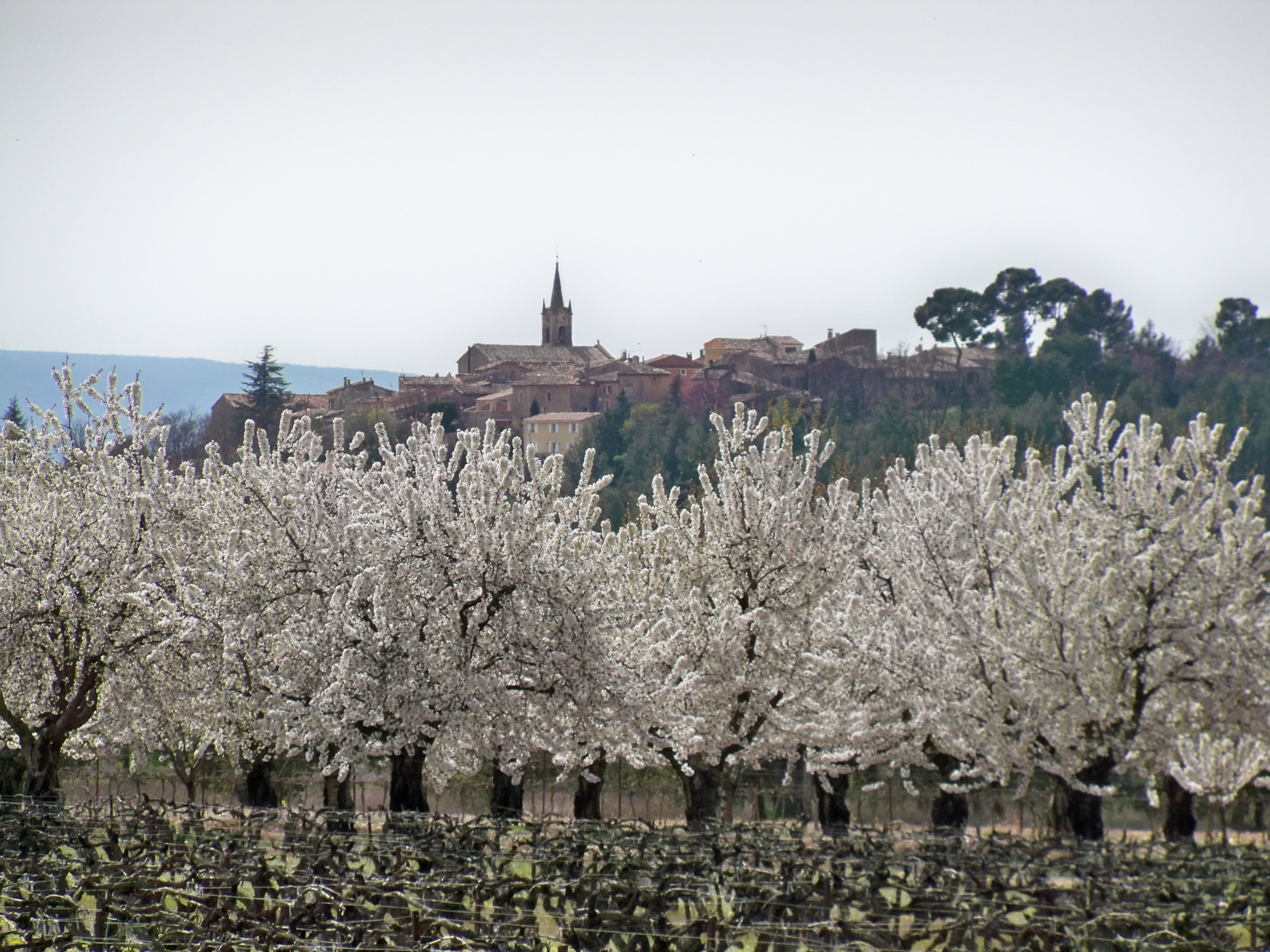 Cherry trees field near Villars, Vaucluse, France